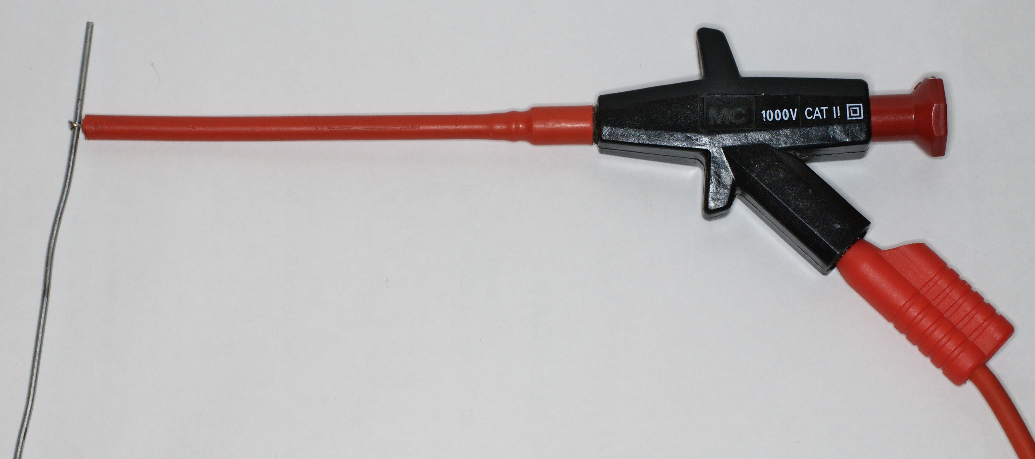 Test Clip: spring wire grabber with banana plug pluged in.